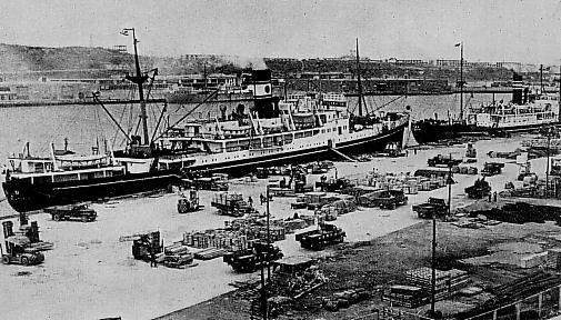 Naha Port circa 1955